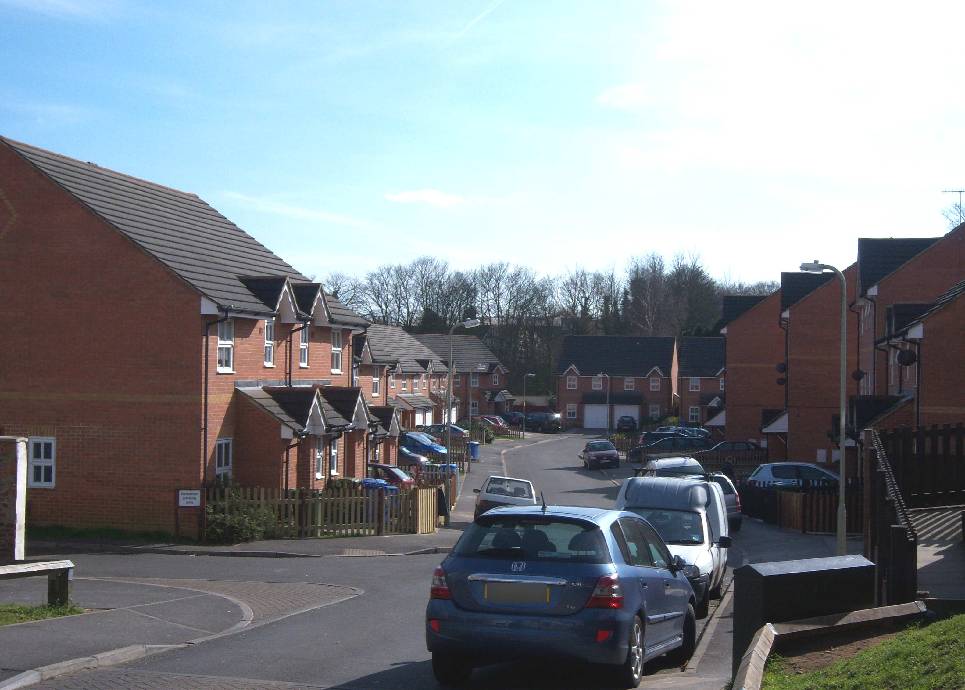 Small Cul-de-Sac in Aldershot, Hampshire - depicting typical 'Noddy House' style/methods of building.